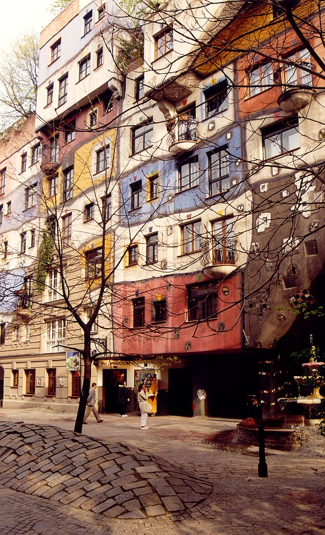 Austria, Vienna, Hundertwasserhaus